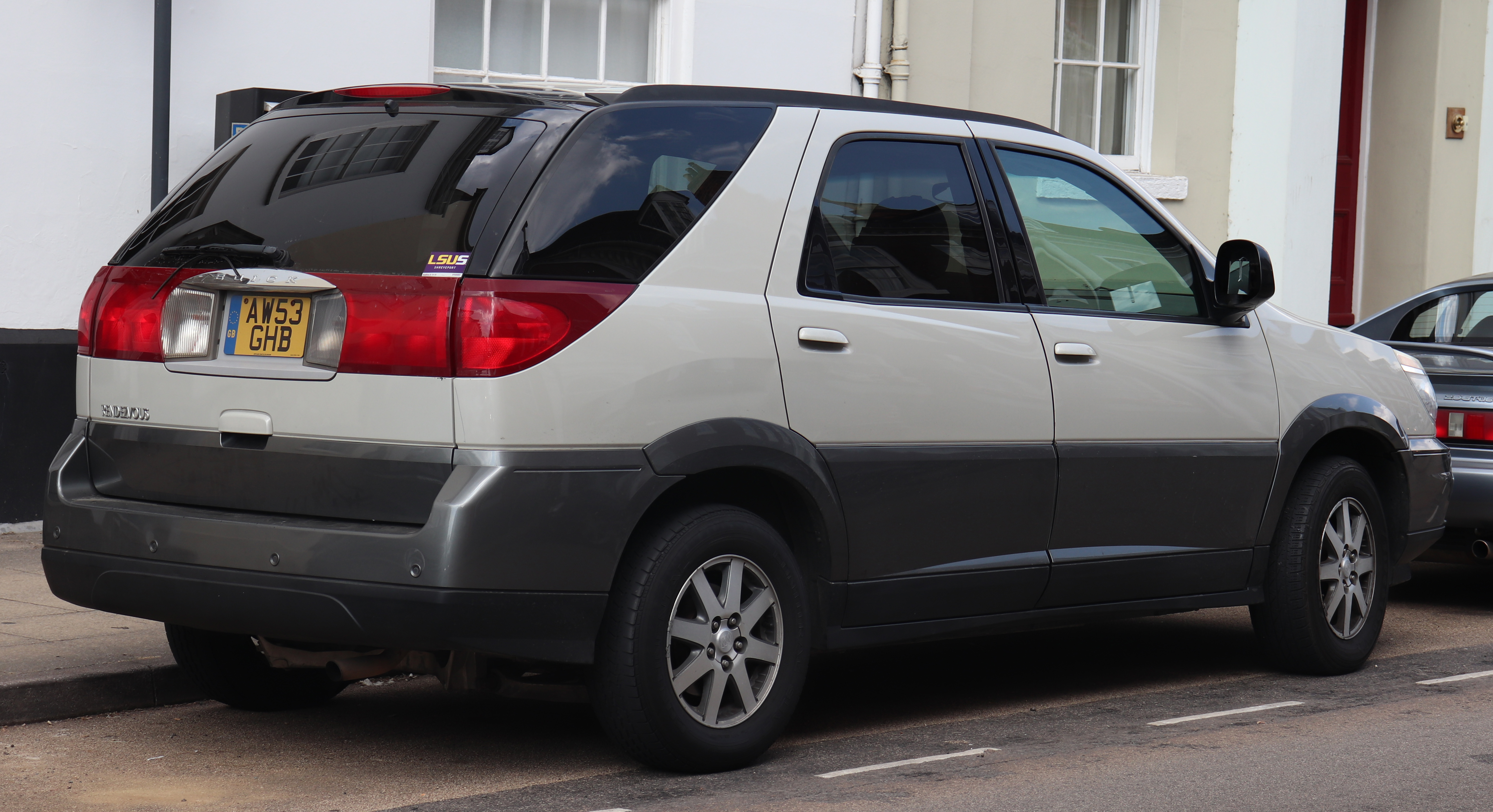 2004 Buick Rendezvous 3.4 Rear Taken in Warwick